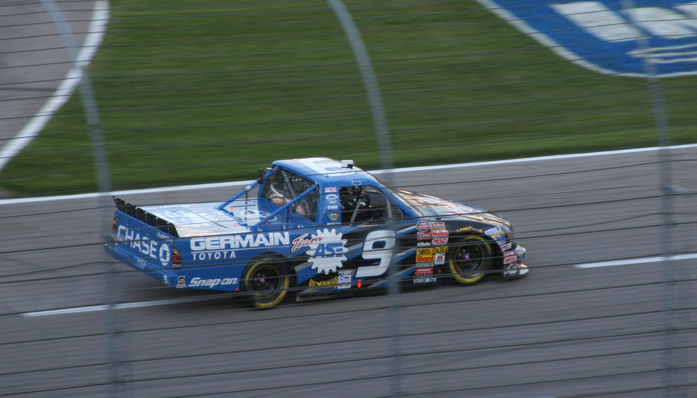 Ted Musgrave at Texas Motor Speedway qualifying on June 8, 2006. Image was tagged Attribution-ShareAlike 2.0 by flickr contributor sidehike. The original image can be found here